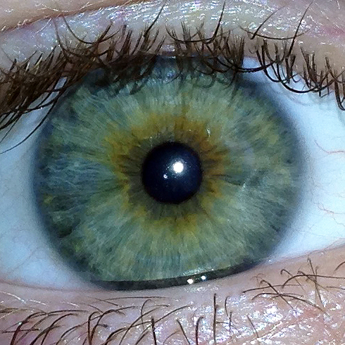 A close-up picture of the light green colored iris of the right eye of a 23 year old Caucasian male.